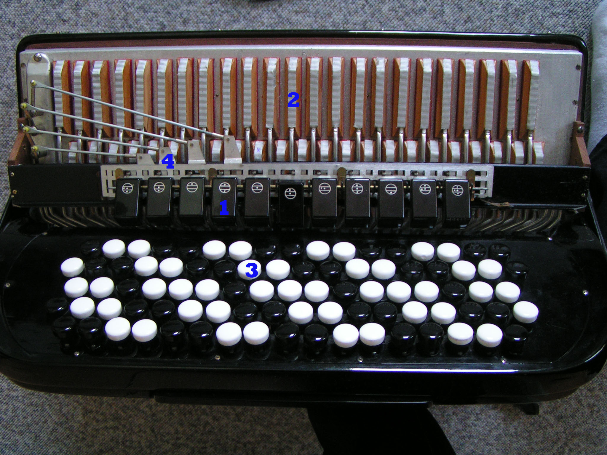 Description of the accordion parts. Register switches Valve Rods Diatonic buttons Register mechanism